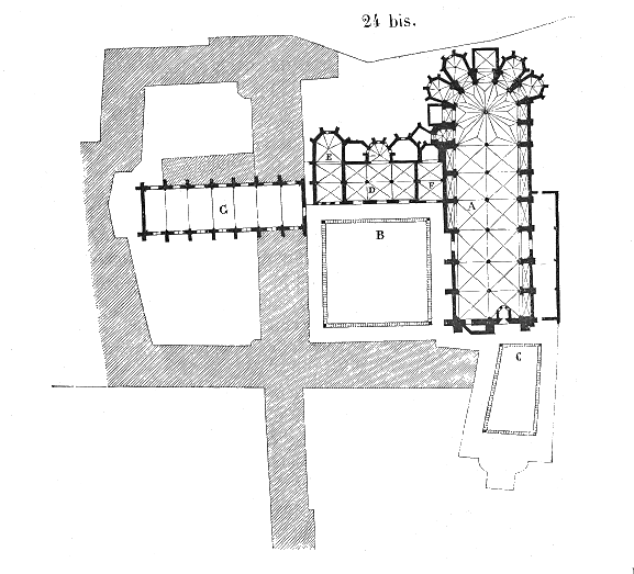 Plan of the Jacobine Monastry of Toulouse, east on top